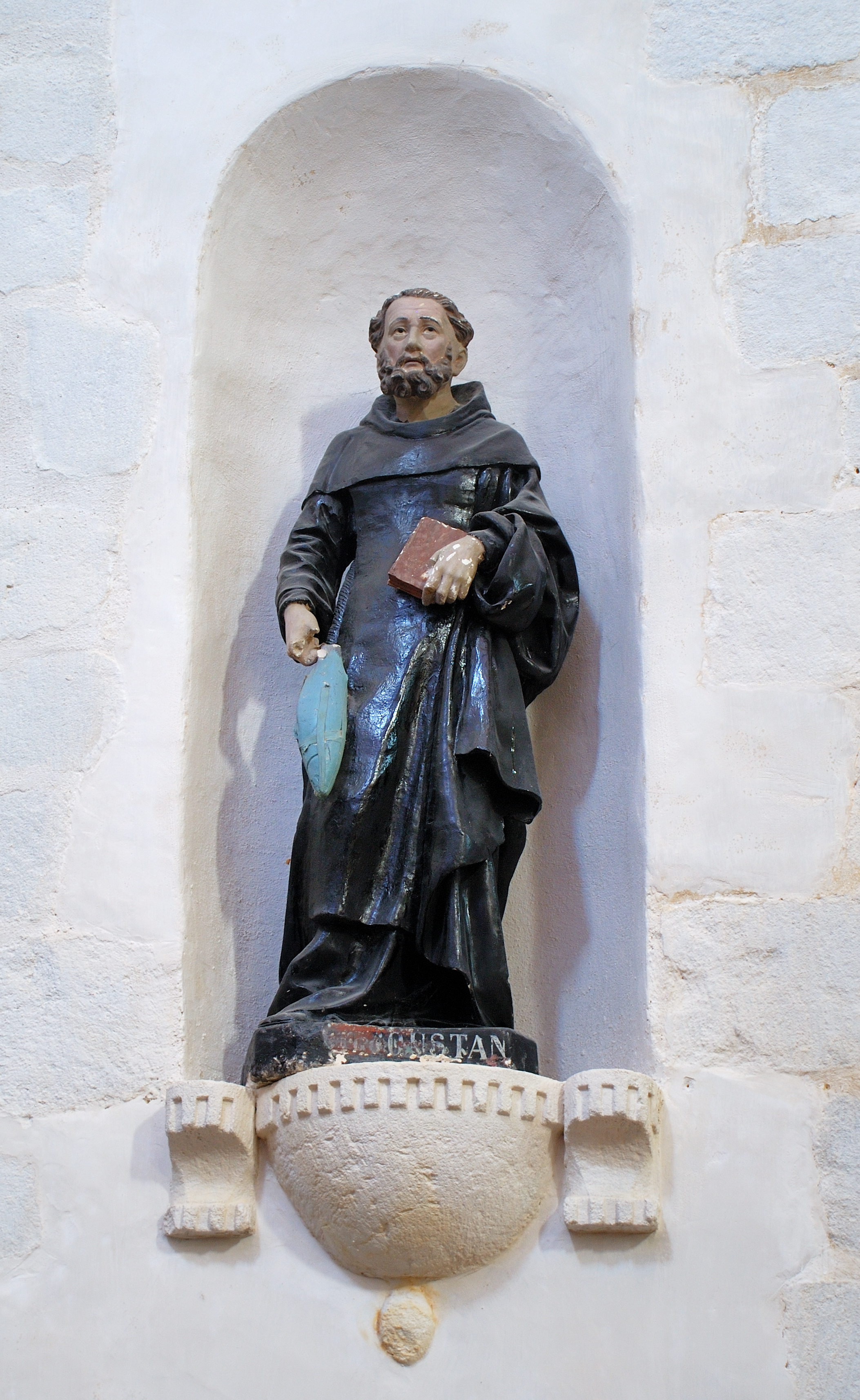 Saint-Gildas-de-Rhuys, abbey-church : Statue of Saint Goustan (Morbihan, France)